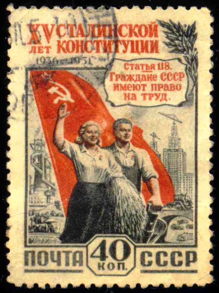 Soviet Union stamp, 15th anniversary of Stalin's Constitution, A worker and a collective farm female worker near the USSR flag, 1952, 40 kop., canceled, CPA 1679.